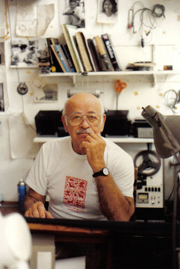 Taken in subject's studio in Saint Just, Trujillo Alto, Puerto Rico in the early 1990s.